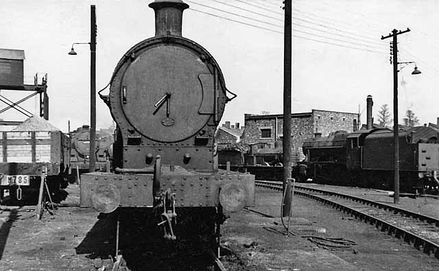 Nuneaton Locomotive Depot. View NE in the Locomotive Yard - 'about to be attacked by' ex-London & North Western 0-8-0 Class G2a No. 49047! This was an important freight Depot for the West Coast Main Line and its connections at Trent Valley Station, also catering for local passenger services. It was located between the WCML and the line to Coventry. Coded by the LMSR and BR as 2B (Rugby District), it had an allocation of 69 locomotives in 1954:- 3 4-4-0s, 15 2-8-0s, 14 2-6-0s, 18 0-8-0s, 7 0-6-0s, 8 2-6-2Ts and 4 0-6-0Ts. It closed in 6/66.